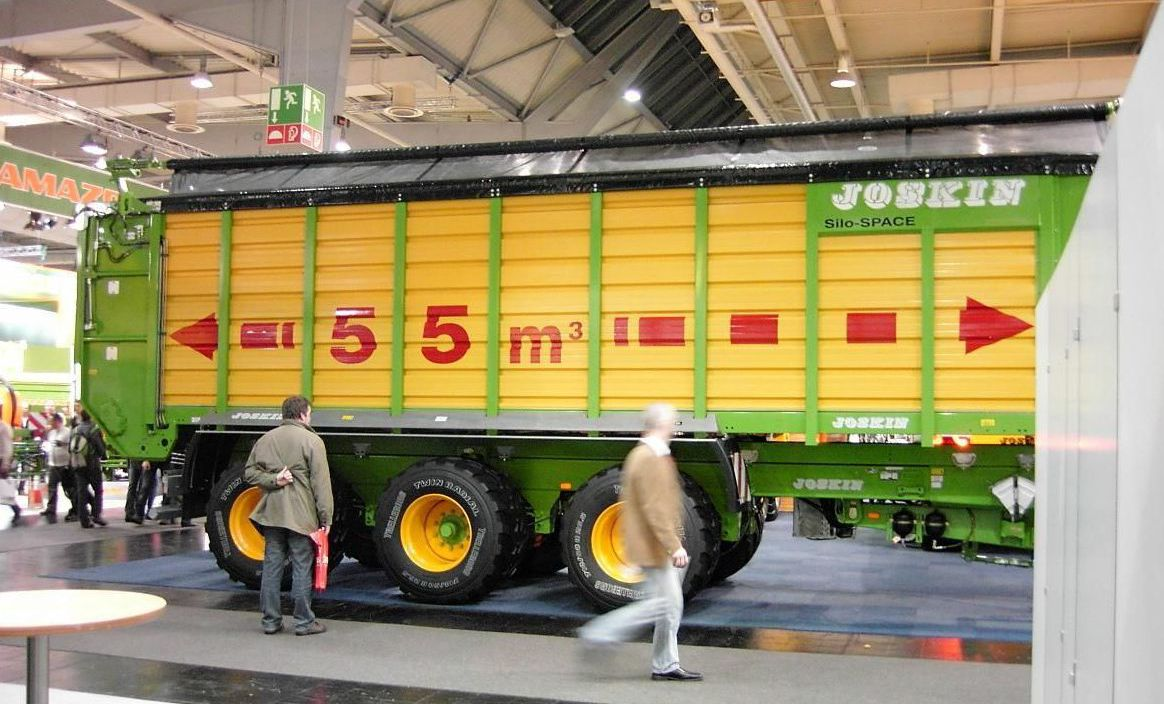 Joskin Silo-Space 55 m³ silage wagon, Agritechnica 2009